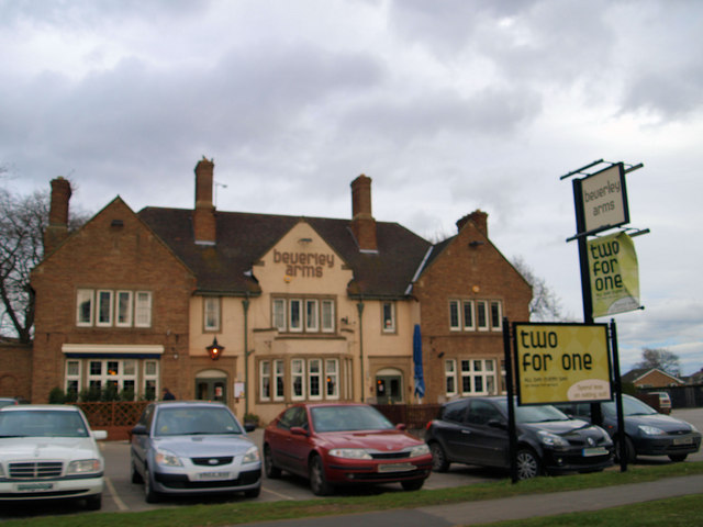 Beverley Arms public house On the roundabout at Ackworth.